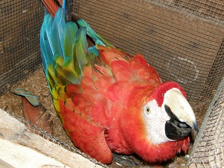 Scarlet Macaw in a wooden nest box near TRC